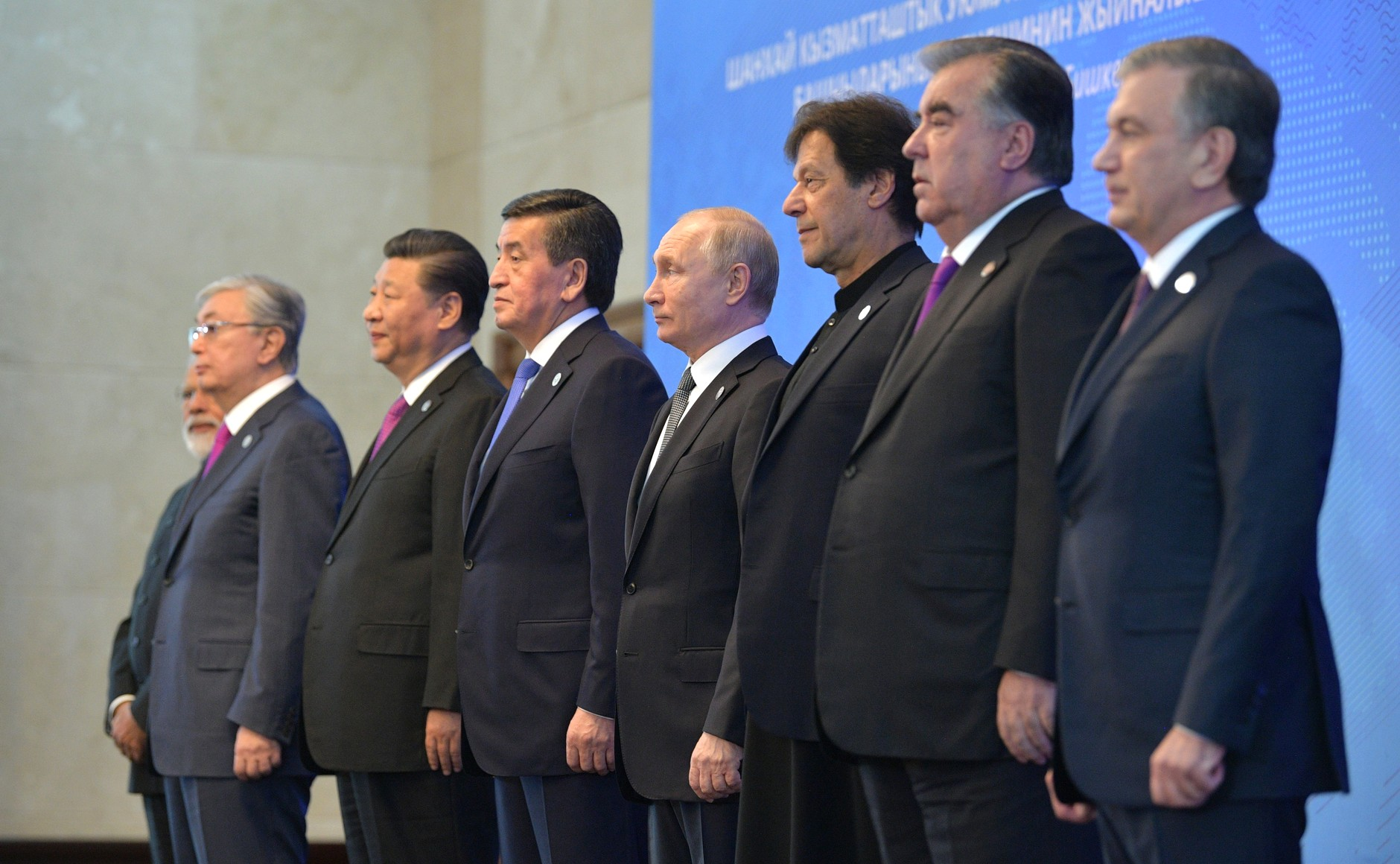 Vladimir Putin attends the Shanghai Cooperation Organisation (SCO) summit.